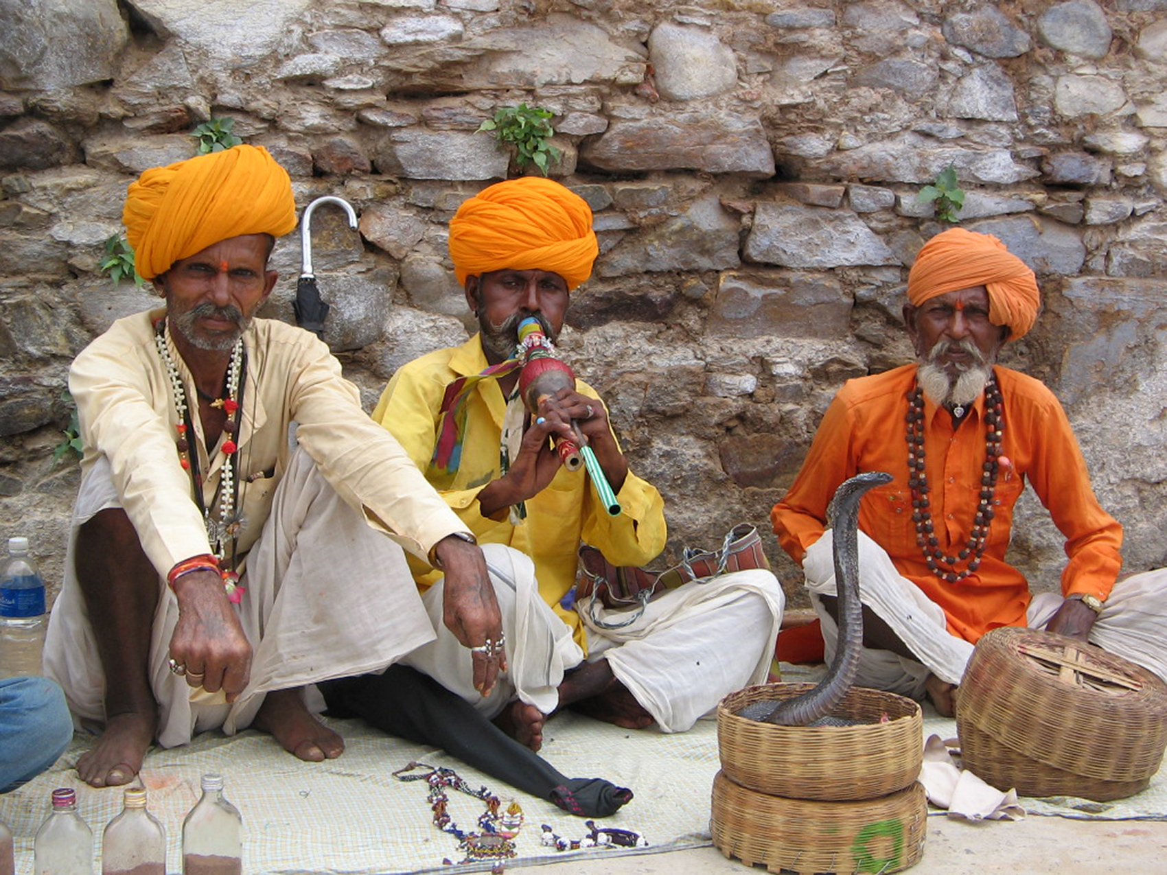 Flute players in Rajasthan